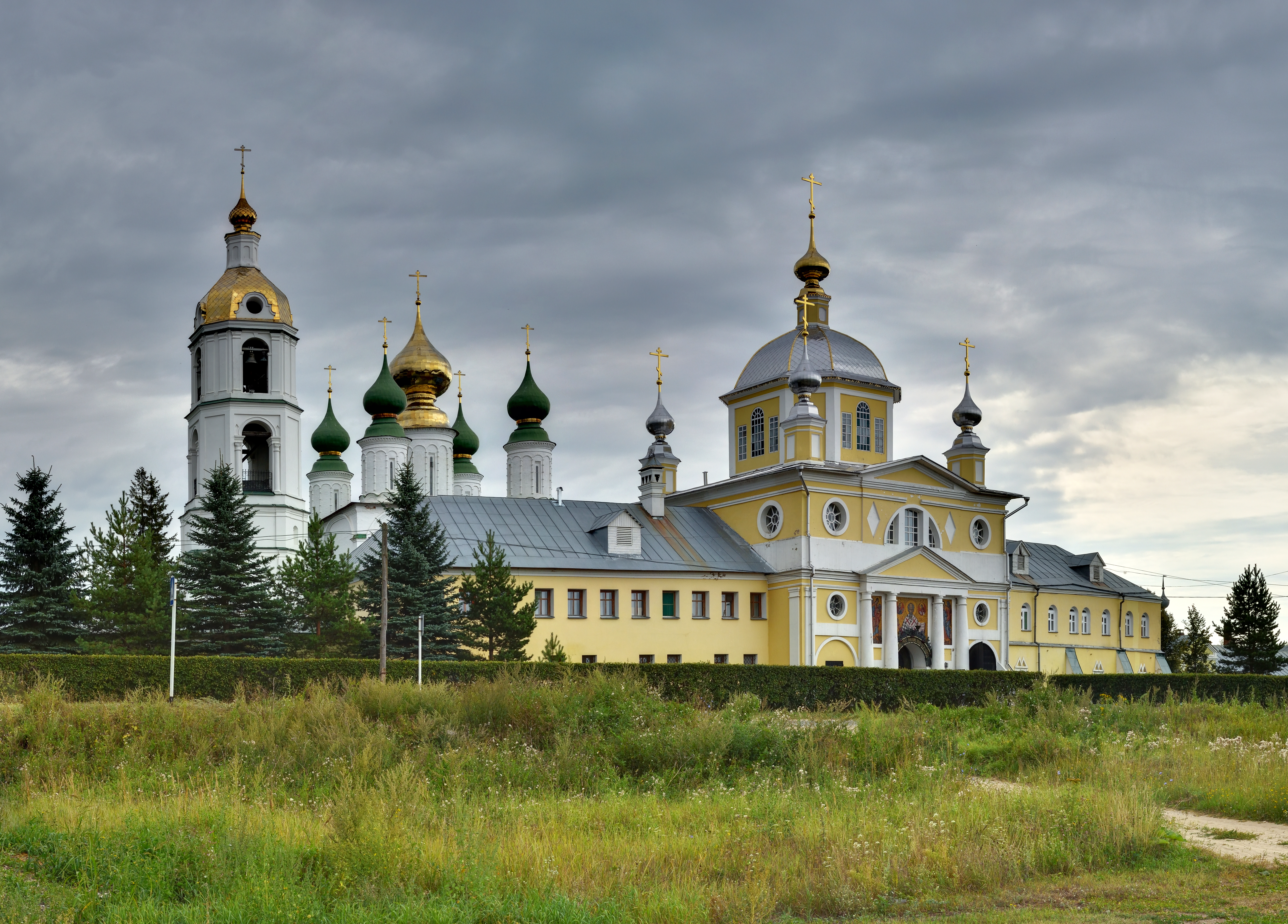 Nikolo-Shartomsky Monastery, Shuysky dictrict, Ivanovo oblast, Russia